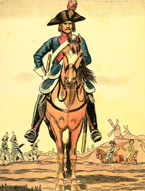 Drawing entitled "Grosse Cavalerie de la République Campagne de Hollande". It shows a French heavy cavalryman from one of the "Cavalerie" (heavy cavalry) regiments during the French Revolutionary Wars. It is placed in 1795, during the French Campaign in Holland.